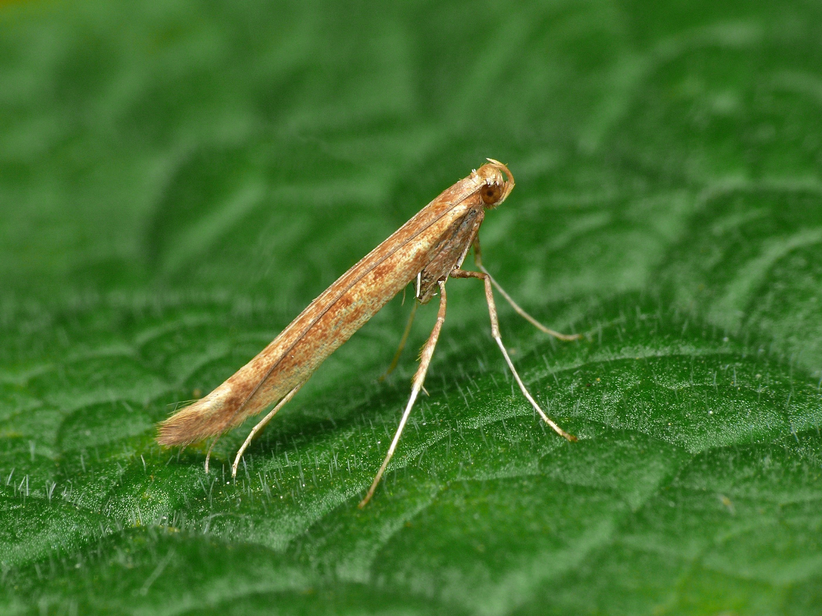 Uffmoor Wood VC37. For differences in genitalia of C. elongella and C. betulicola